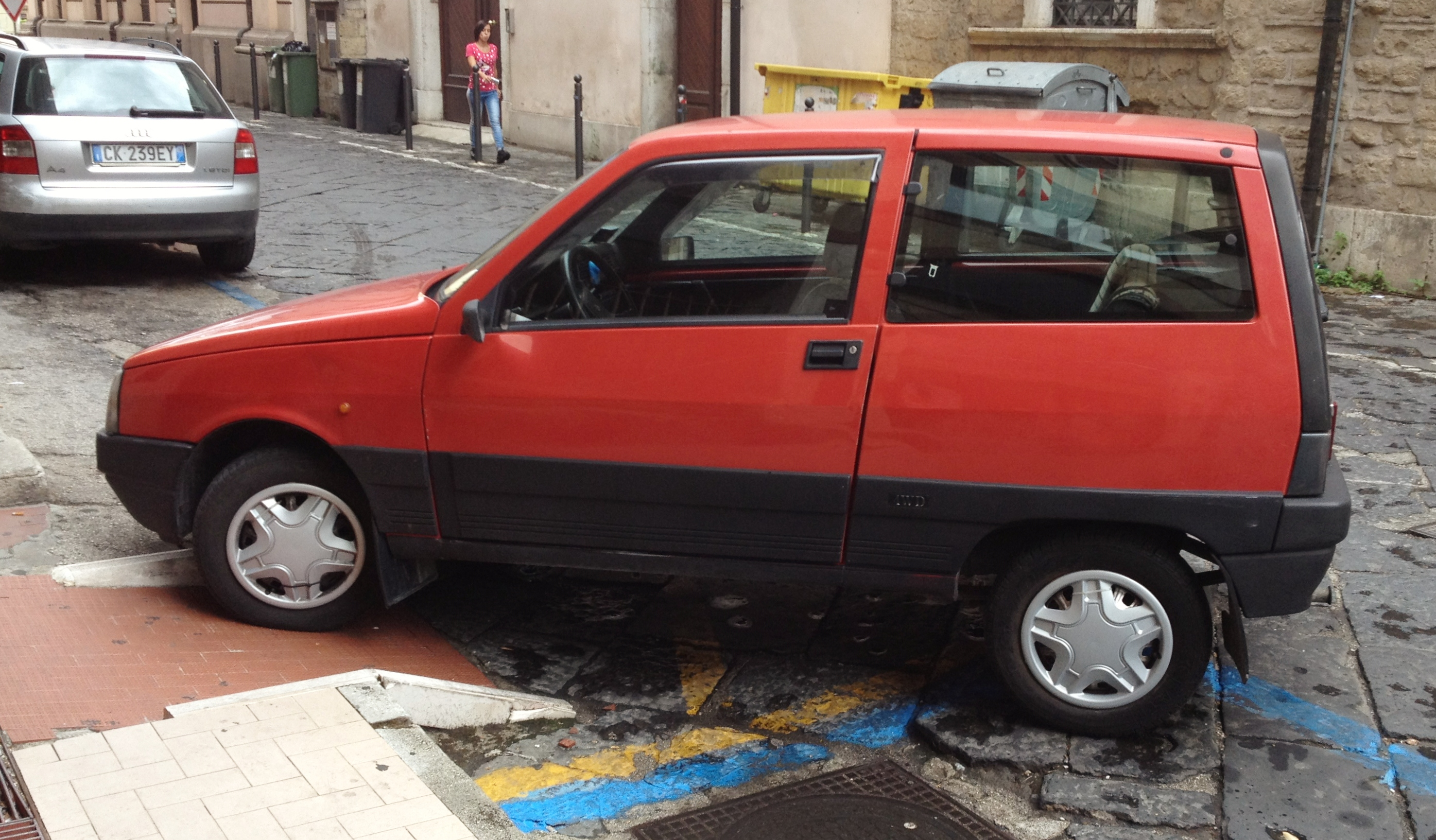 Autobianchi Y10 4WD red